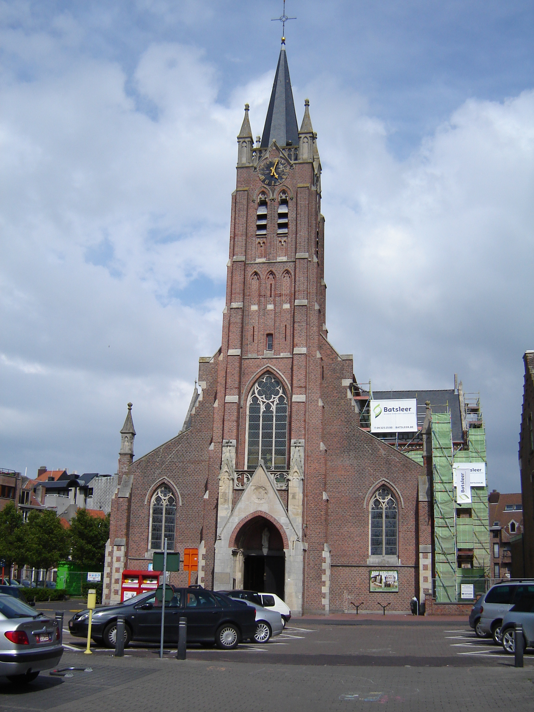 Church of Saint Anthony Abbot in Heist, Knokke-Heist, West-Flanders, Belgium.